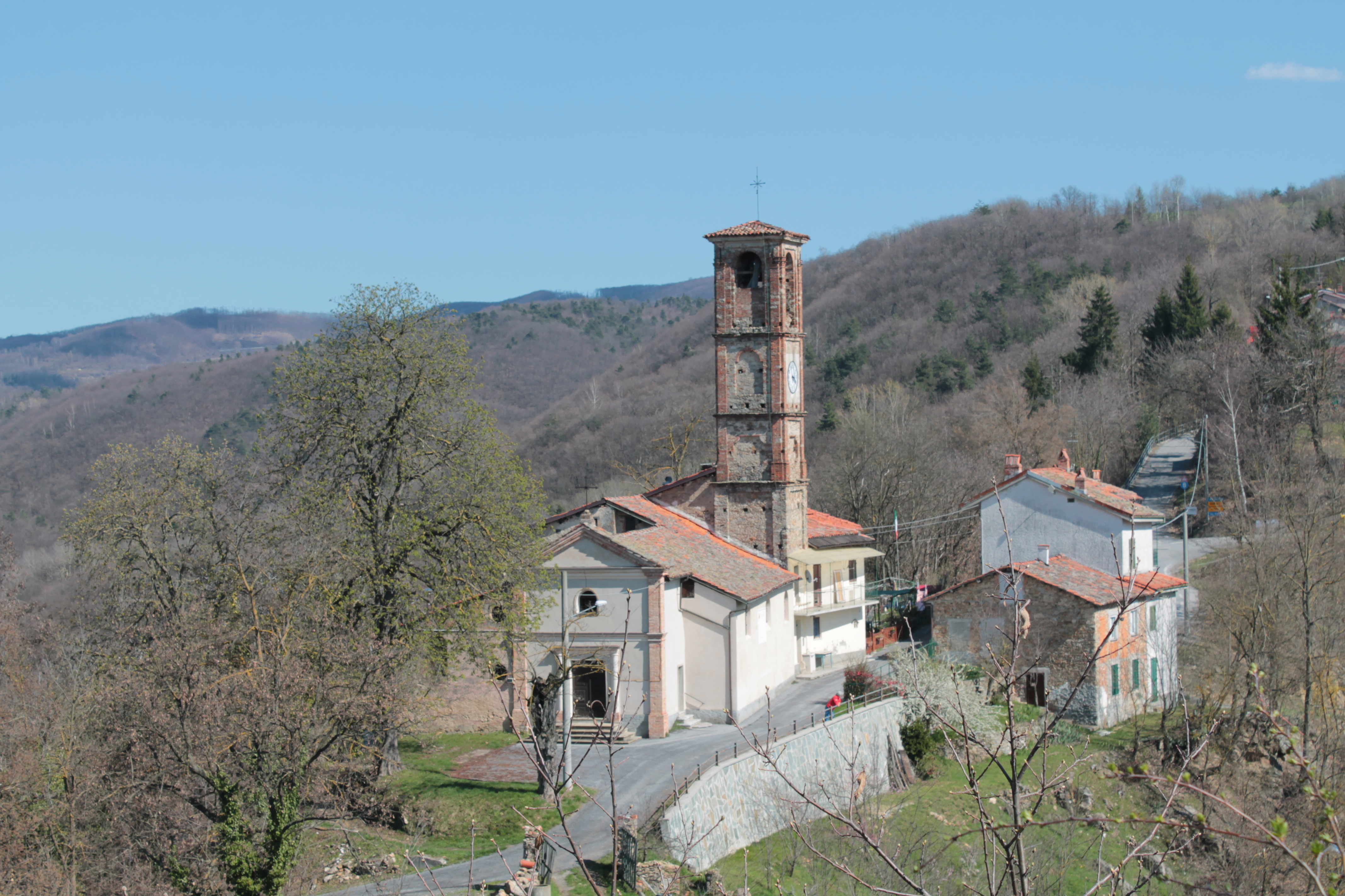 Church of Saint Bartholomew, parish of Malpotremo, Ceva (Italy)